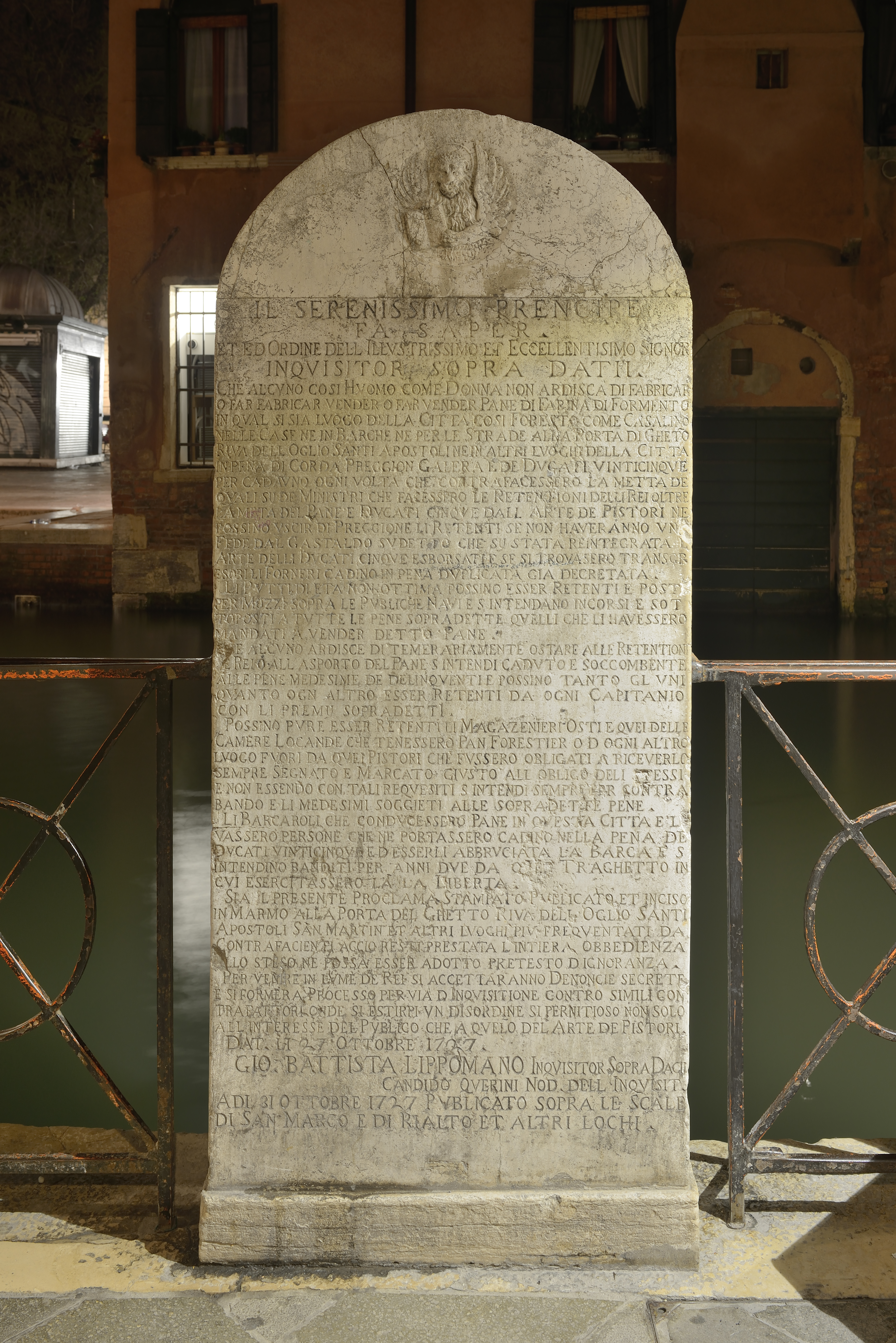 Stele del pan on theSotoportego Falier on the Rio Santi Apostoli canal and the Santi Apostoli bridge in Venice.